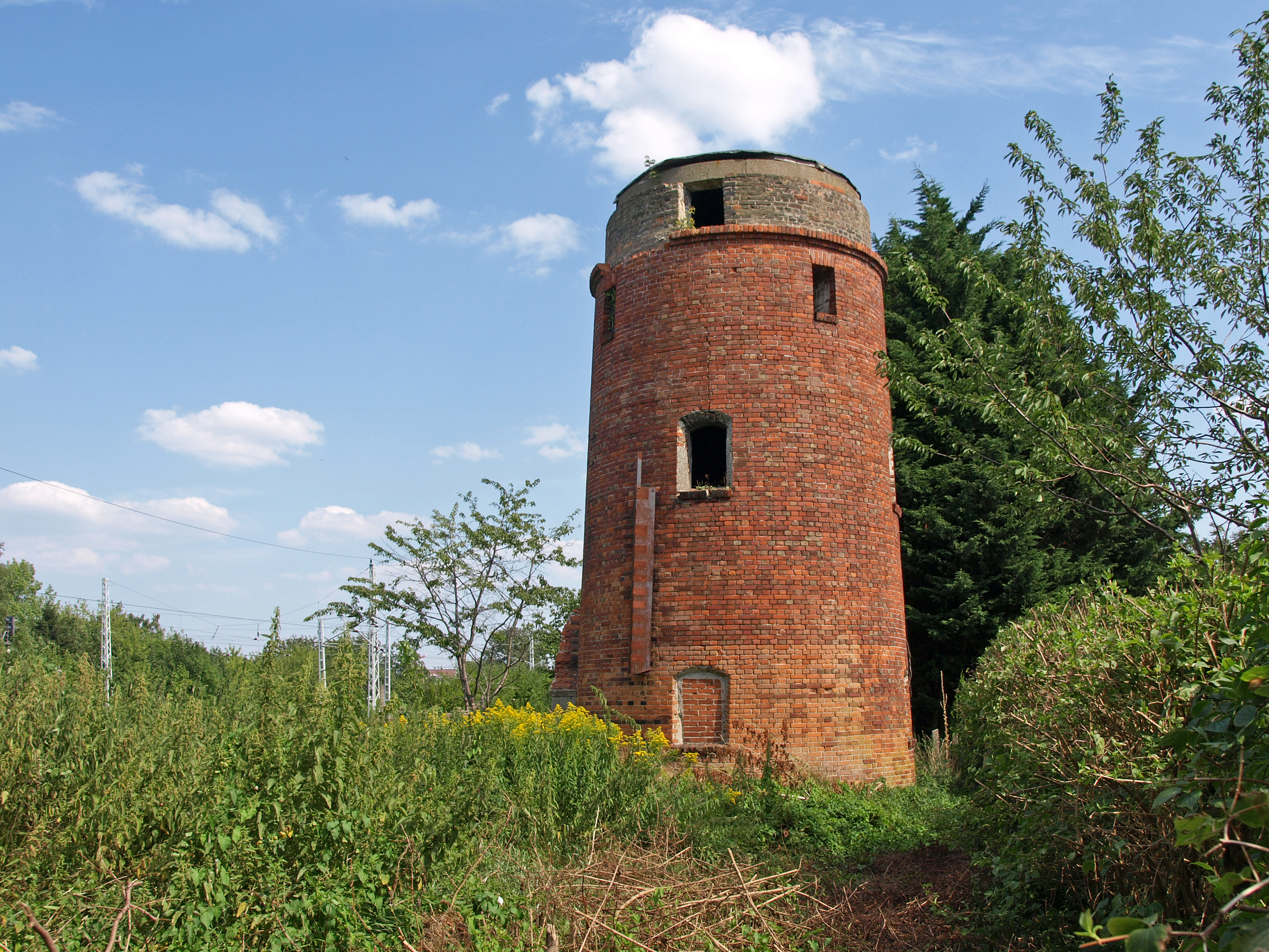 Wasserturm am Bahnhof Ribnitz-Damgarten